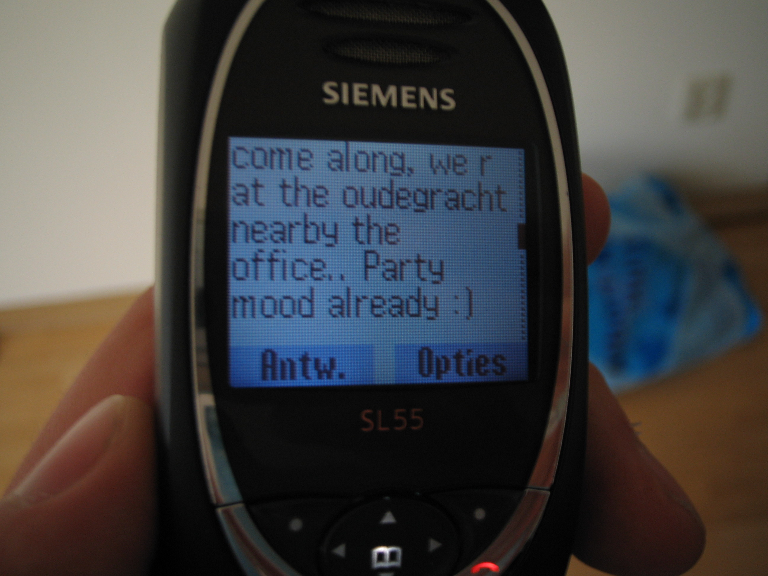 Party SMS